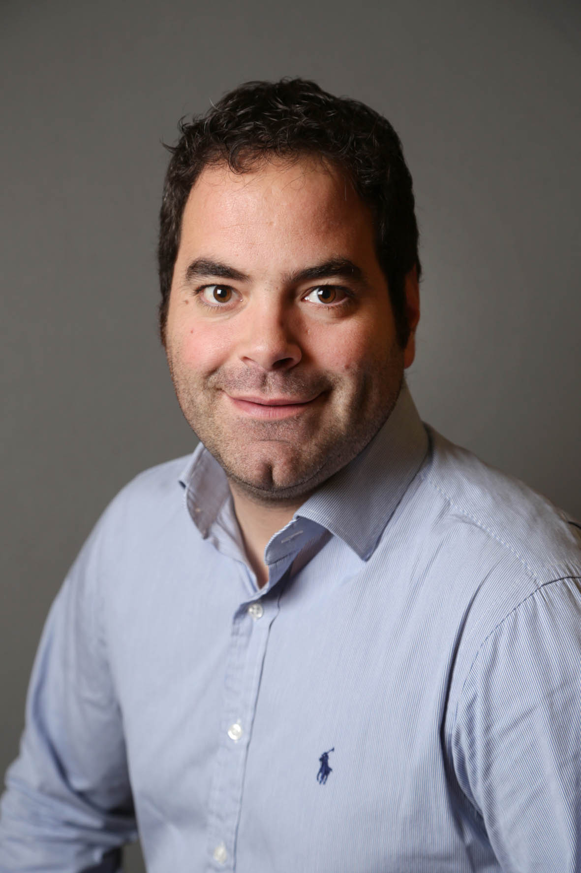 Candidats Eleccions Generals 2015 David Saldoni de Tena